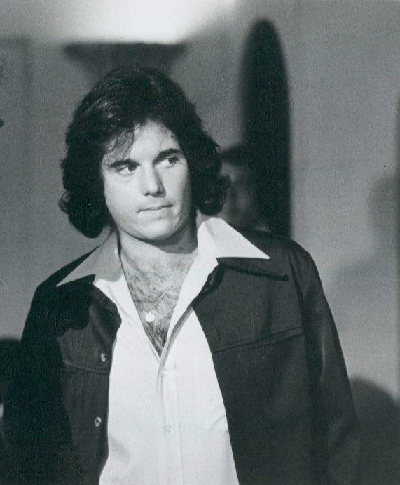 Publicity photo from the television program The Streets of San Francisco. In the photo are Karl Malden and Desi Arnaz, Jr.